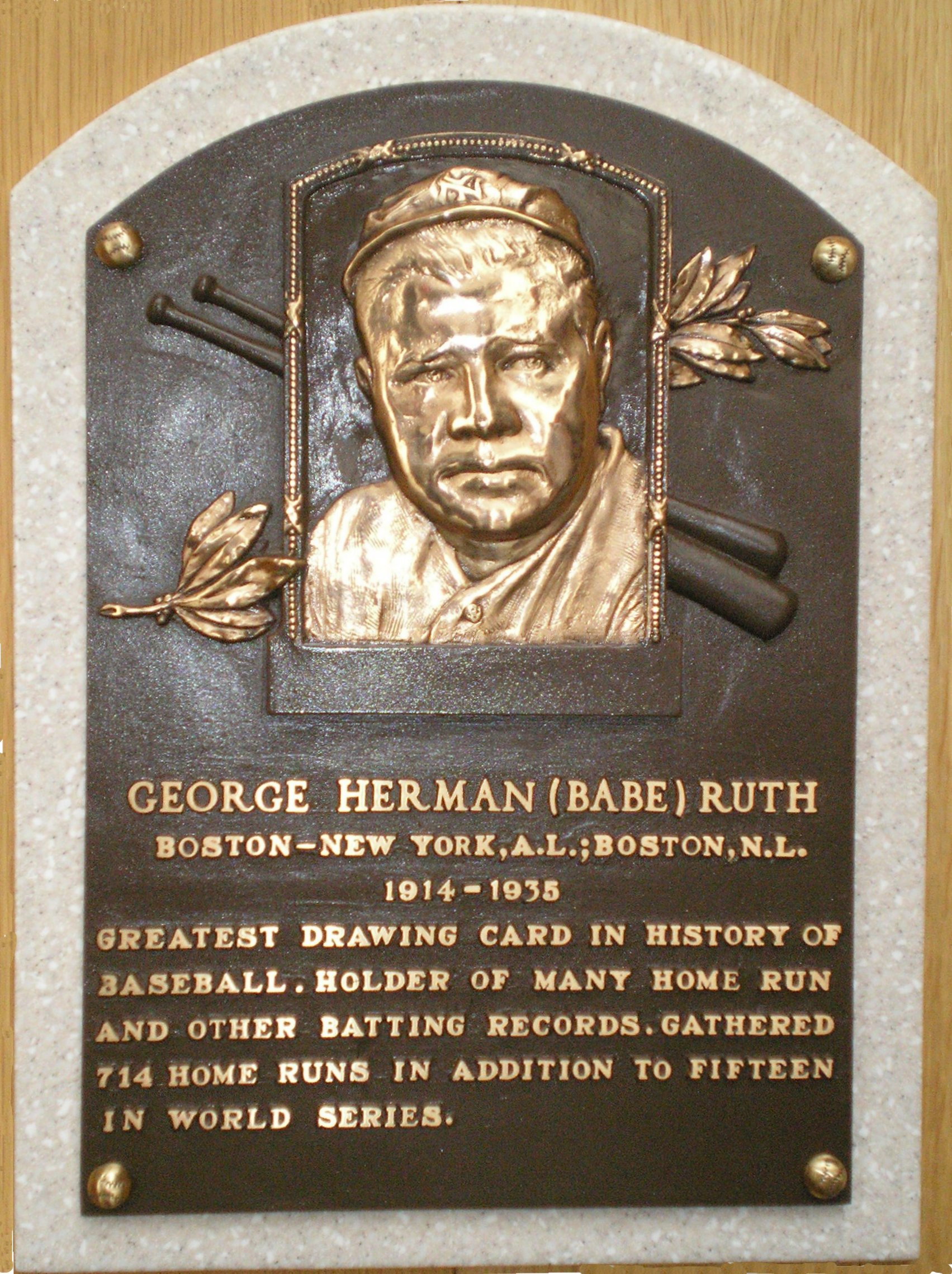 Babe Ruth's Baseball Hall of Fame Plaque. Taken by me. --(Review Me) R ParlateContribs@ (Let's Go Yankees!) 03:23, 22 July 2007 (UTC)